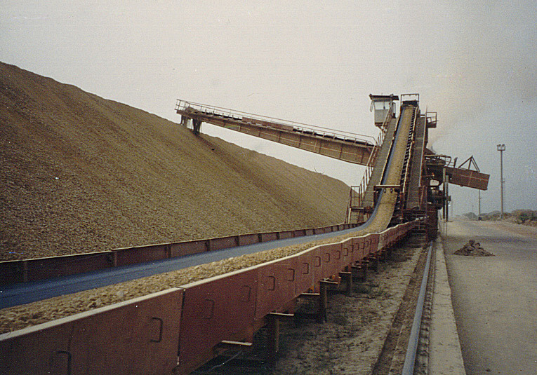 A limestone pre-homogenisation pile being built with a boom stacker prior to use in Portland cement raw mix